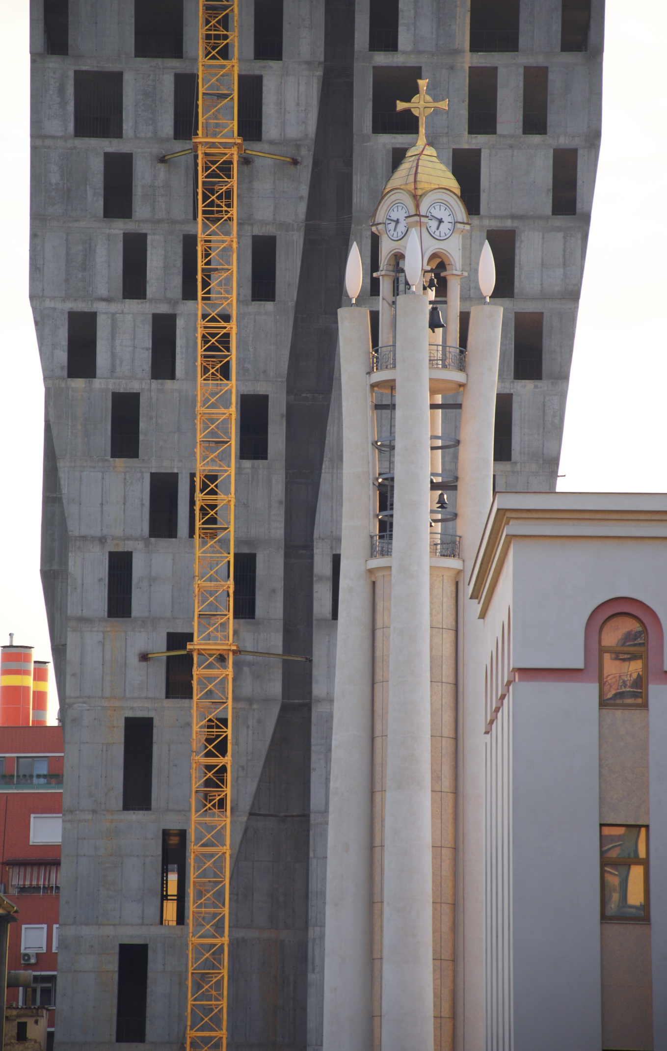 tirana 4ever green tower and Cathedral of Resurrection